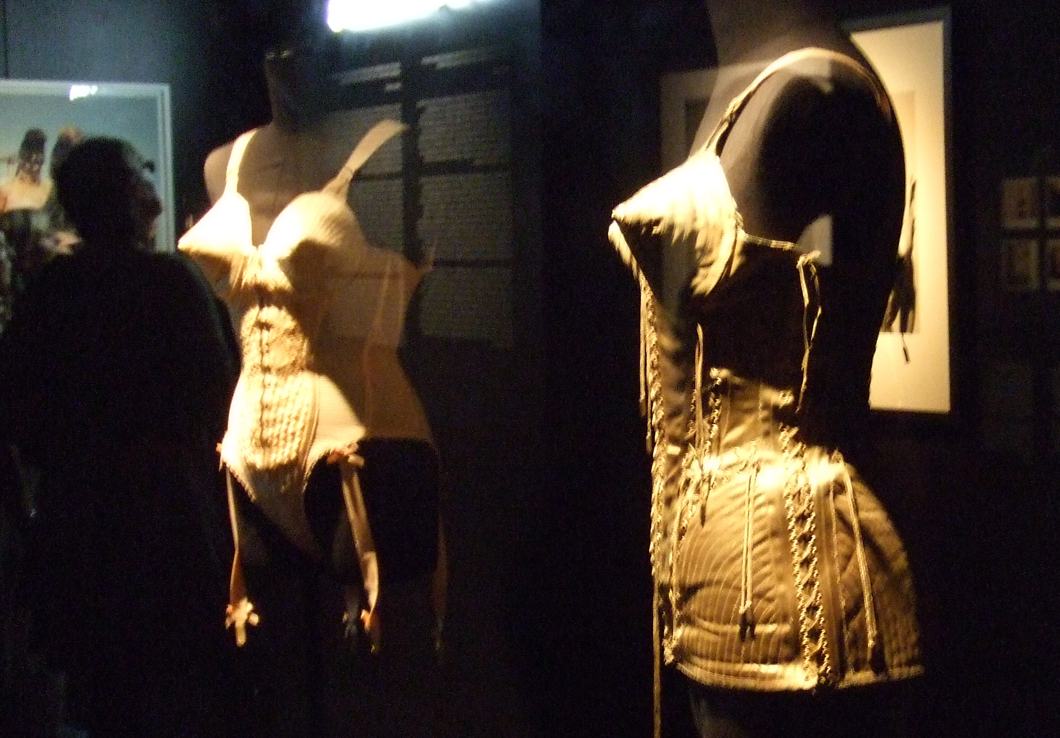 Silk corset with cone bra made by Jean-Paul Gaultier. From the exhibition "The Fashion World of Jean Paul Gaultier: From the Sidewalk to the Catwalk", at the Swedish Centre for Architecture and Design in Stockholm 2013.